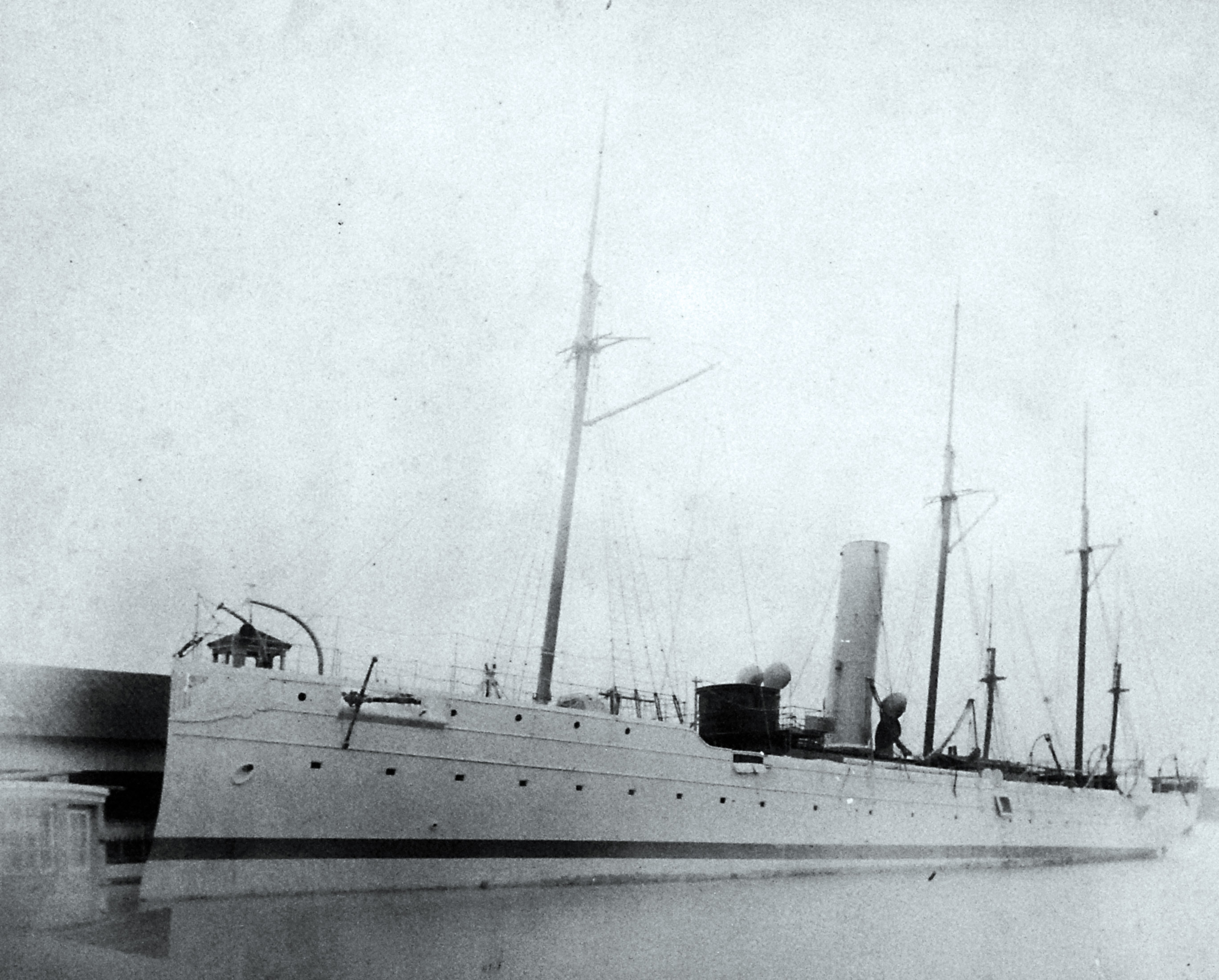 Lot 10010-4: USS Dolphin, port view while at Norfolk Navy Yard, Norfolk, Virginia, February 5, 1892. Collection of Secretary of the Navy Benjamin F. Tracy. Courtesy of the Library of Congress. (2016/05/12). Similar to NH 54624.